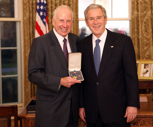 President George W. Bush stands with Sam Heyman after presenting him with the 2008 Presidential Citizens Medal Wednesday, Dec. 10, 2008, in the Oval Office of the White House. White House photo by Chris Greenberg.